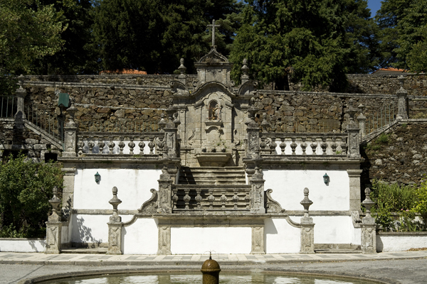 Santuário de Nossa Senhora das Preces; Aldeia das Des (Oliveira do Hospital); concelho de Oliveira do Hospital, Portugal; ref: PM_033358_P_Aldeia_das_Des; ; ; Photographer: Paul M.R. Maeyaert; © Paul M.R. Maeyaert; ; Cultural heritage; Cultural heritage/Baroque; Europe/Portugal/Aldeia des Des; Europe/Portugal/Oliveira do Hospital